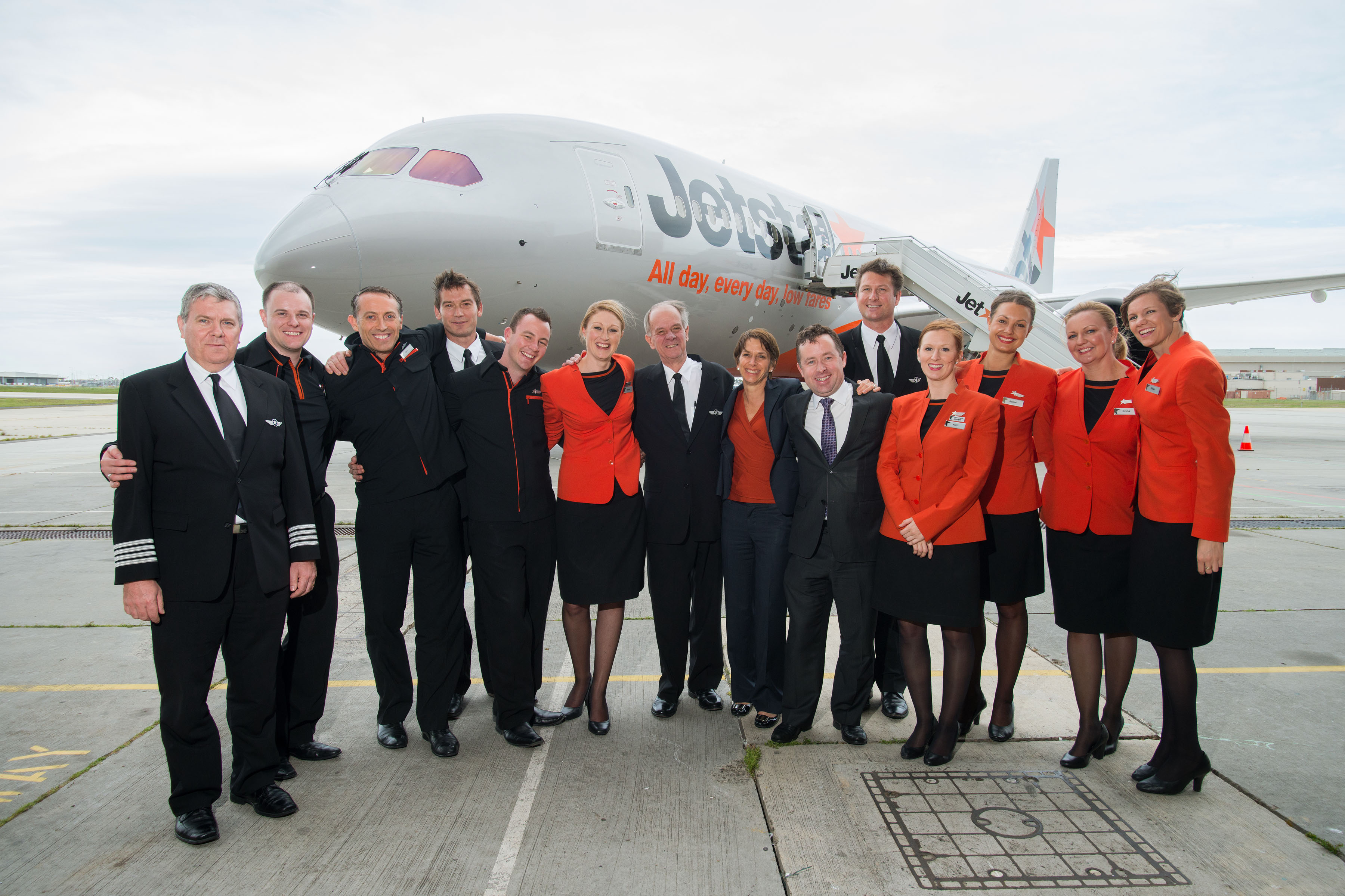 Jayne Hrdlicka (Jetstar Group CEO) and Alan Joyce (Qantas Group CEO) with the pilots and cabin crew who brought the first Jetstar 787 Dreamliner back from Seattle on its delivery flight.